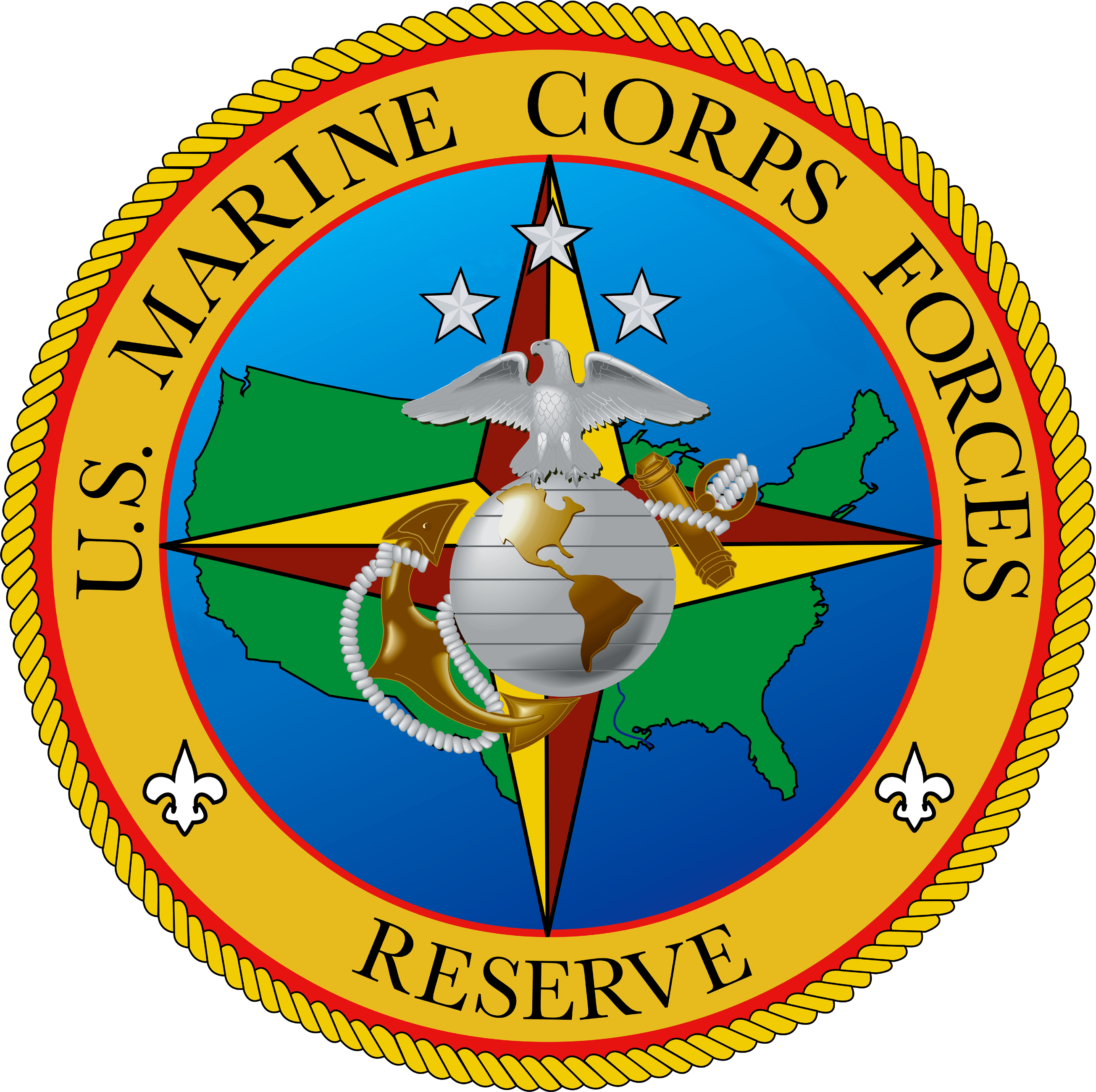 New 2006 emblem of the Marine reserve forces of the United States